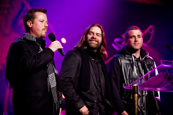 Great Big Sea. Taken by Alex Ramon